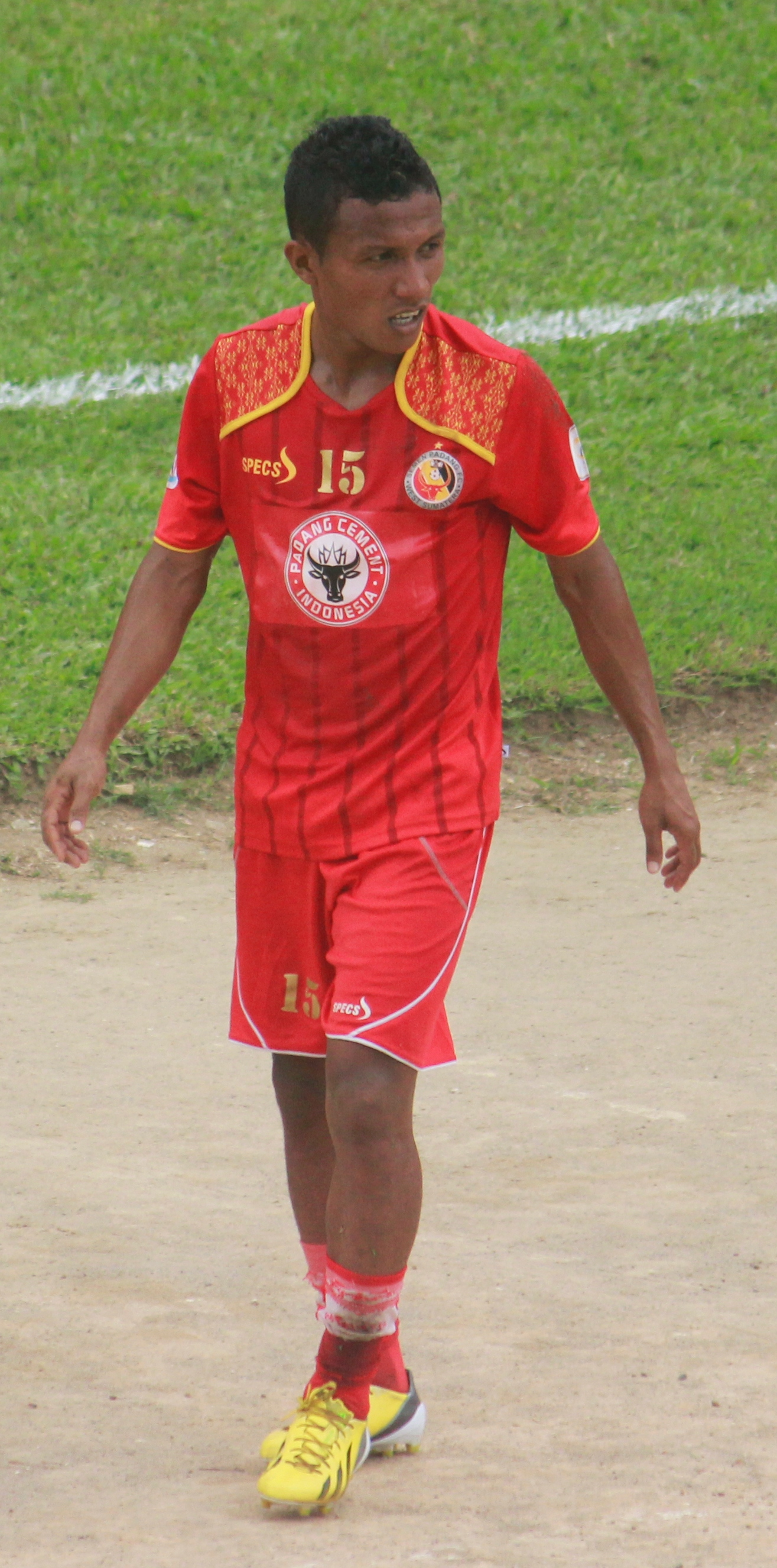 Hendra Bayauw playing for Semen Padang against Sime Darby, 30 December 2013 in Padang.